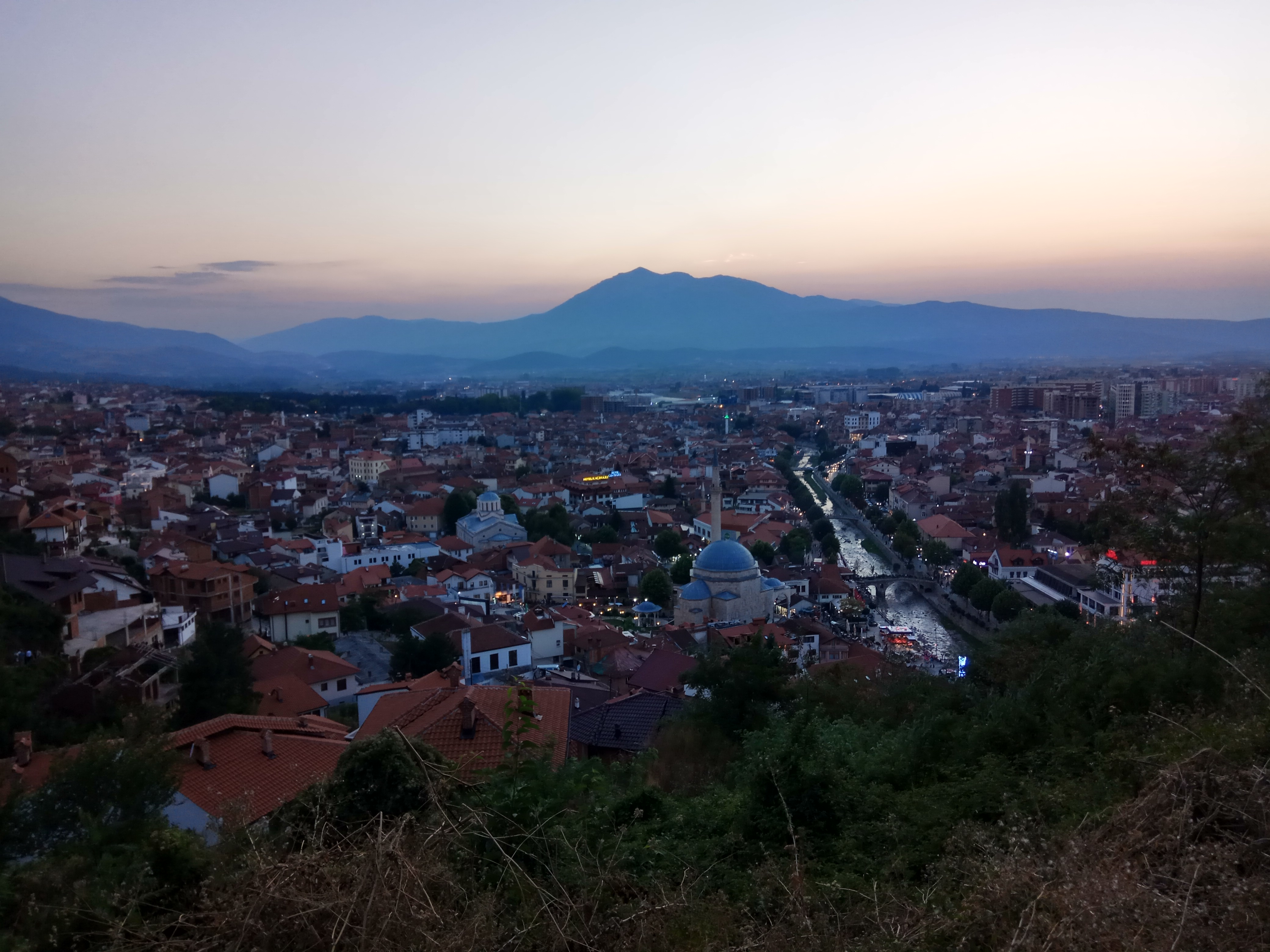 Image of Prizren city in Kosovo in a location near the castle of the city.